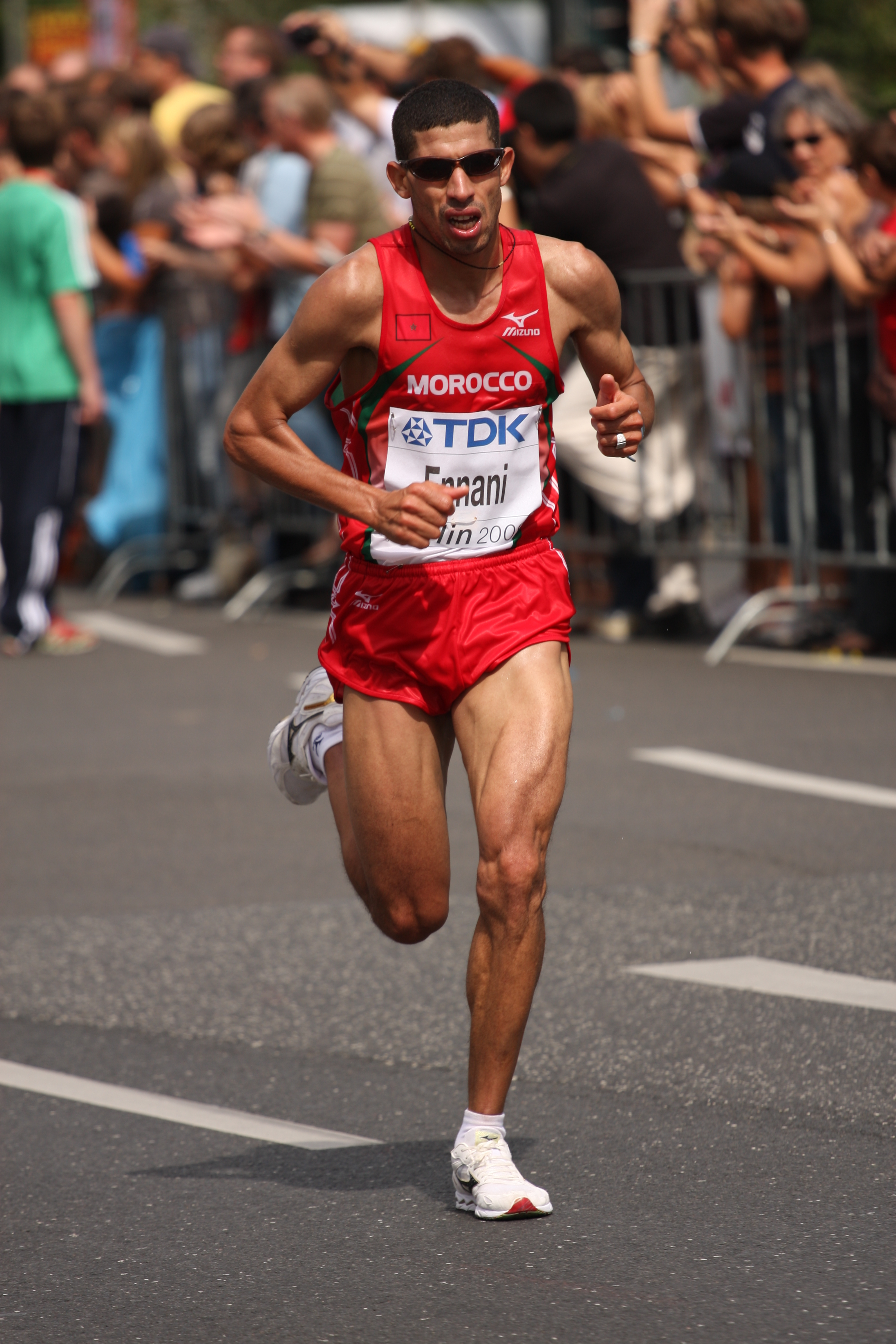 Marathon